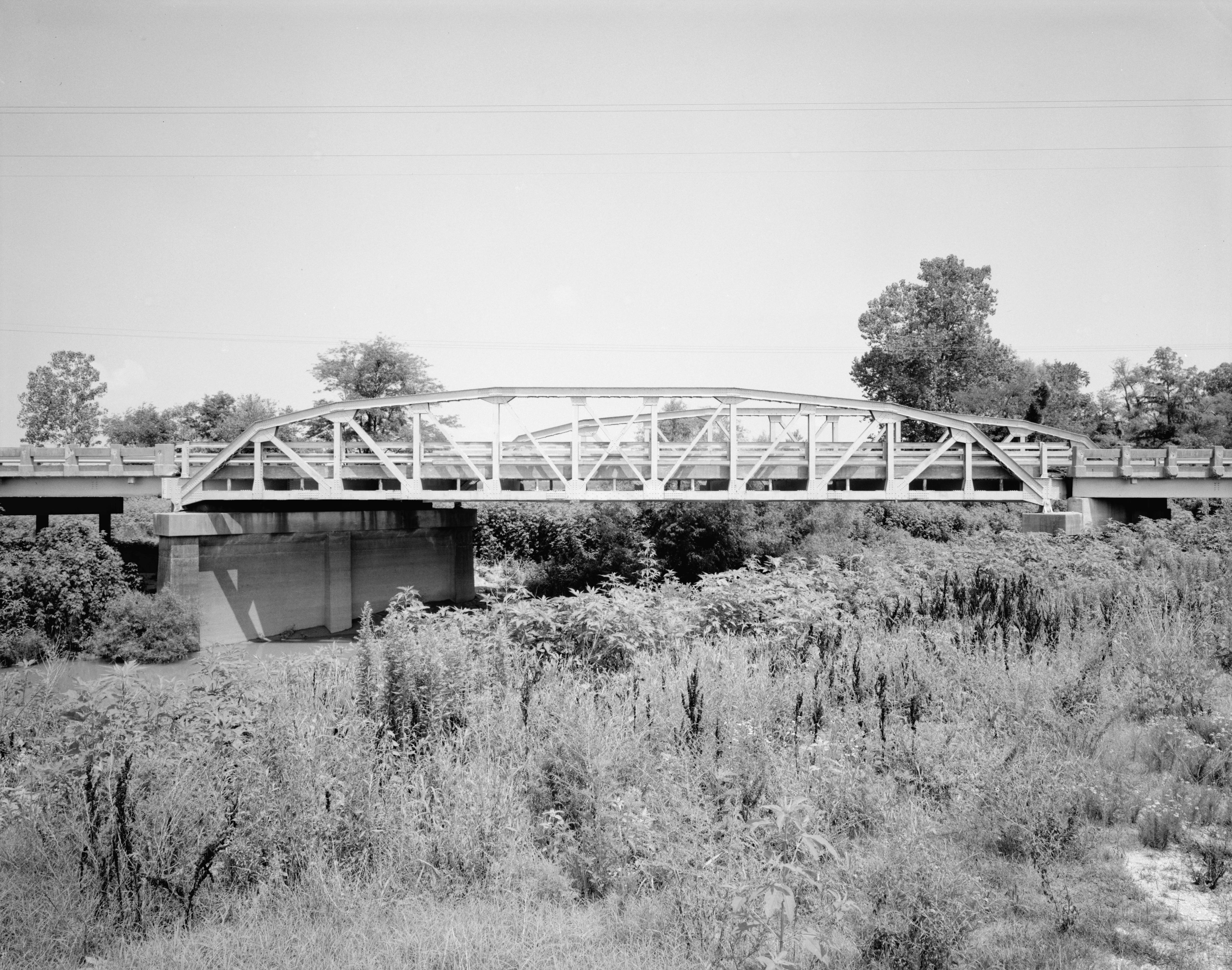 Northern (upstream) side of the Cache River Bridge, which carries U.S. Route 412 over the Cache River near Walnut Ridge in Lawrence County, Arkansas, United States. Built in 1934, this Parker pony truss bridge is listed on the National Register of Historic Places.